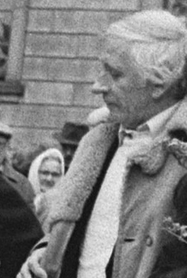 Mathieu Ficheroux, 1984